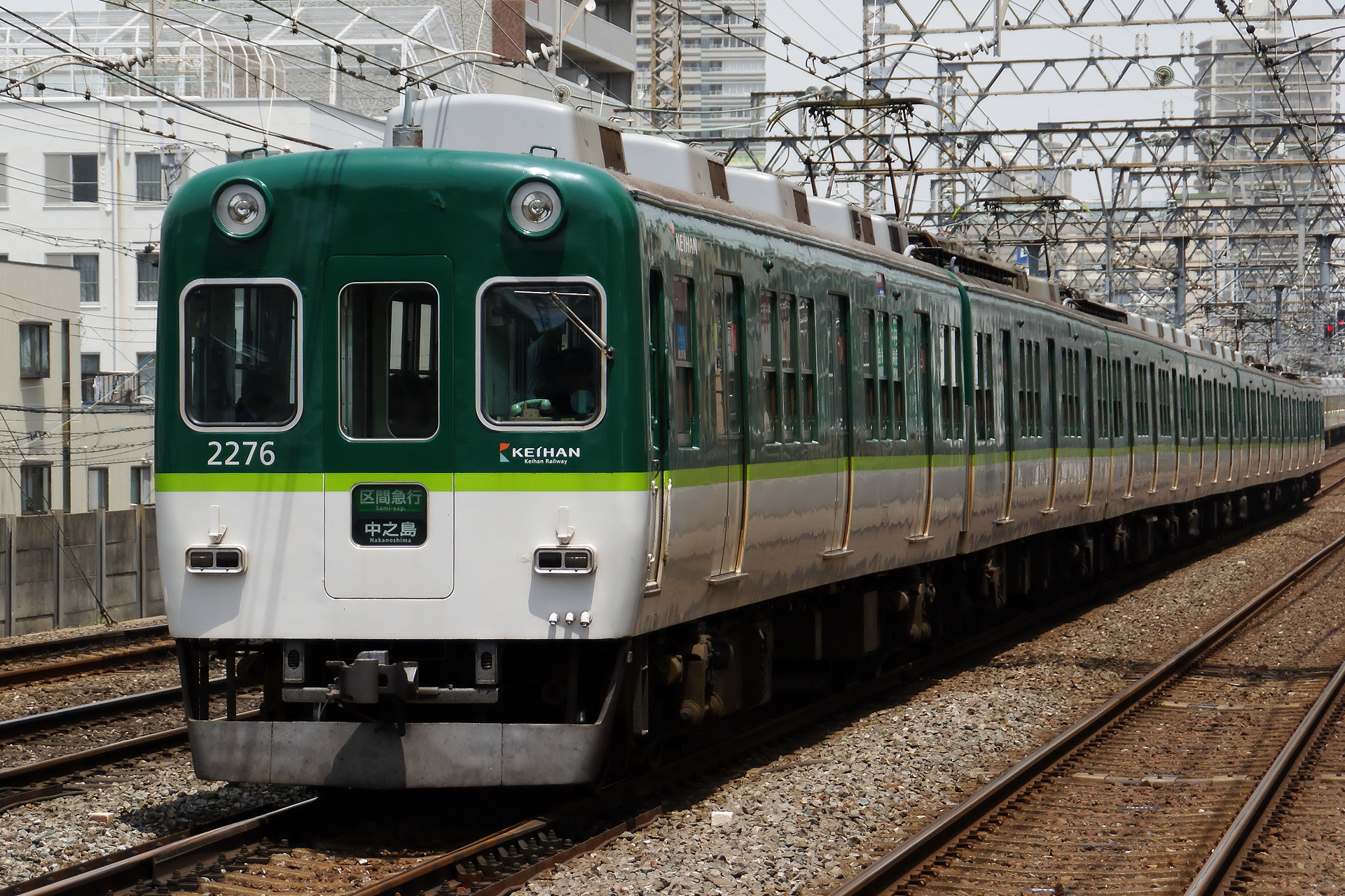 Keihan Electric Railway 2200 series EMU set 2226 approaching Doi Station on the Keihan Main Line in Osaka, Japan